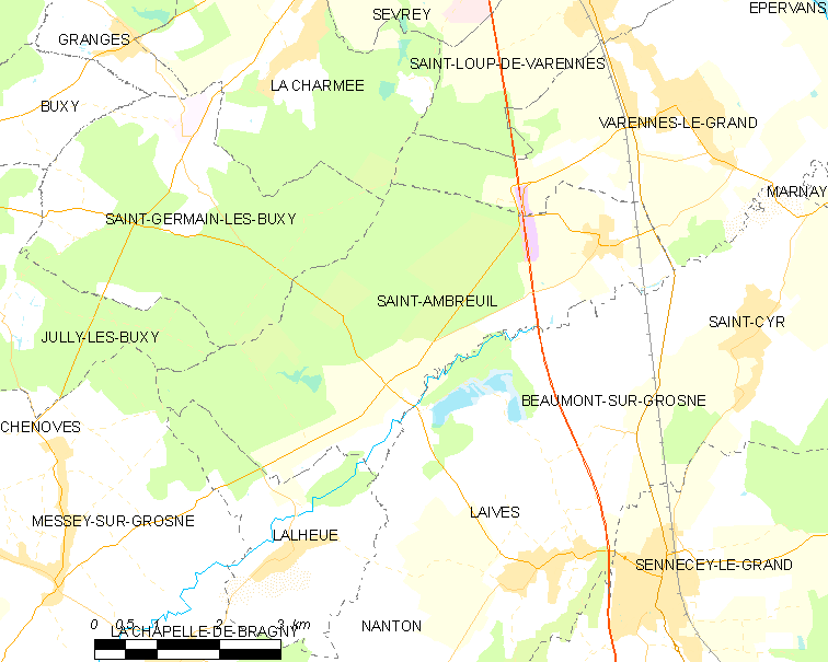 Map of French municipality